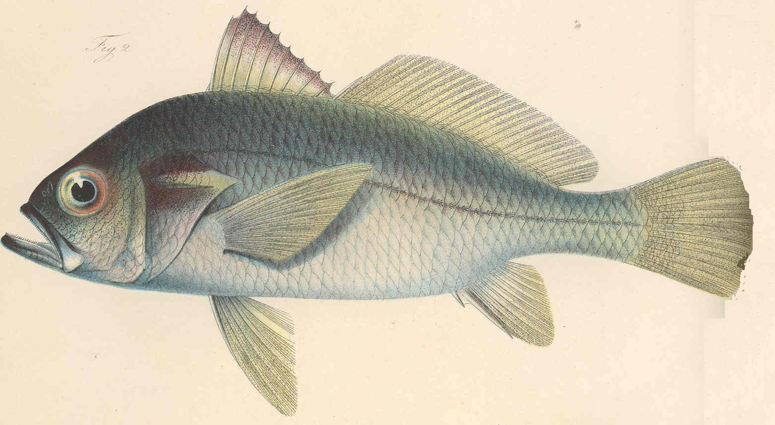 Subject: Pteroscion, Lariums Tag: Fish